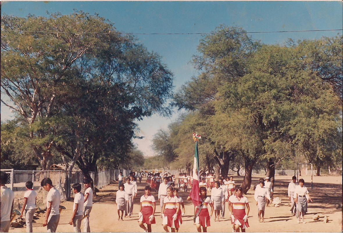 Así eran los desfiles antes del 2000.